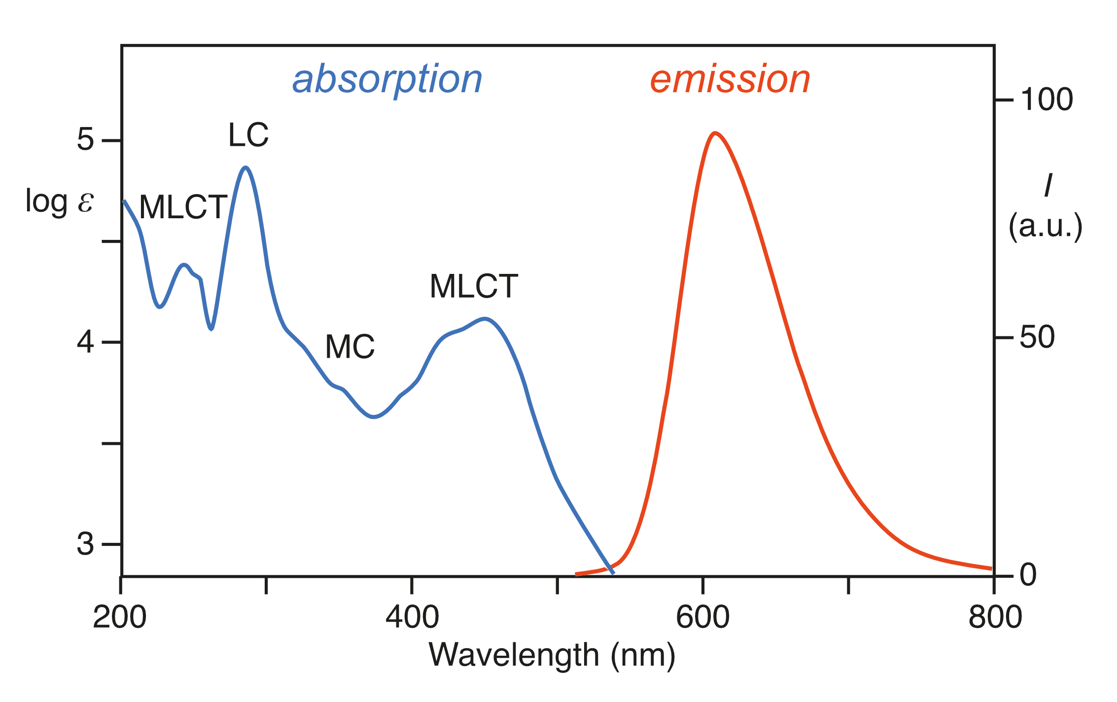 Absorption and emission spectra of tris(bipyridine)ruthenium(II) in alcoholic solution at room temperature